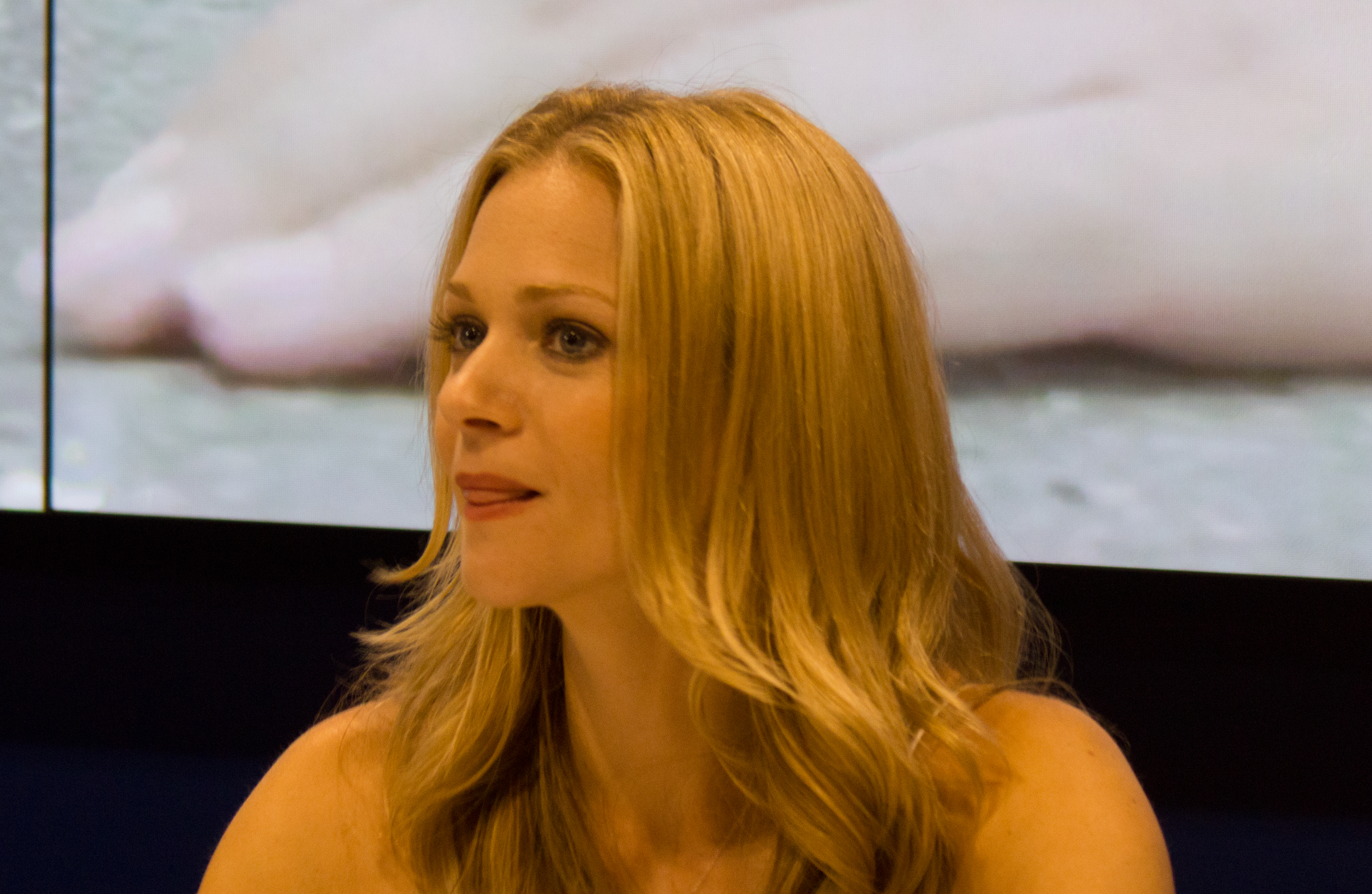 Actress AJ Cook signing autographs at the 2012 FanExpo Canada